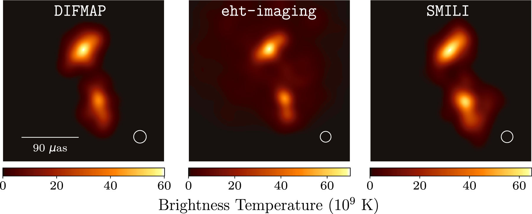 Representative images of 3C 279 from the April 11 EHT observations produced using DIFMAP, eht-imaging, and SMILI. To simplify visual comparisons and display the images at similar resolutions, the images are restored with circular Gaussian beams of 20, 17.1, and 18.6 μas FWHM, respectively. The observations were made in 2017; the image was published in 2019.